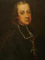 Josef Wilhelm Rinck von Baldenstein